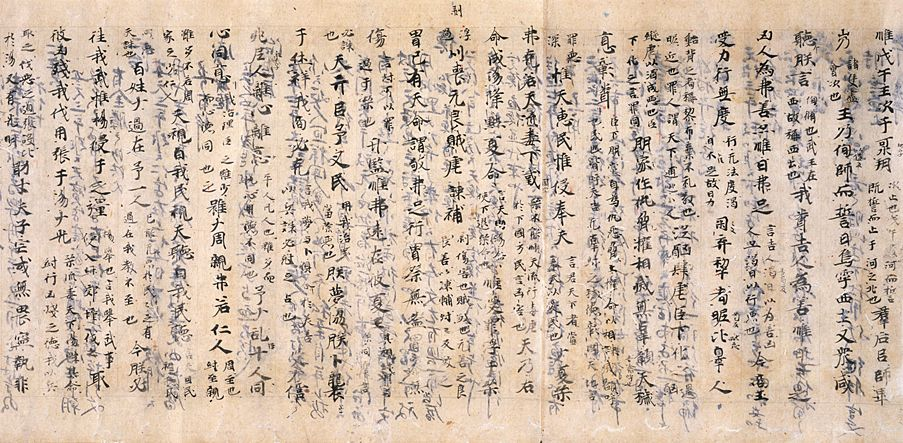 Old-Script Document of Antiquities (Guwen Shangshu) (古文尚書, kobun shōsho), vol. 6